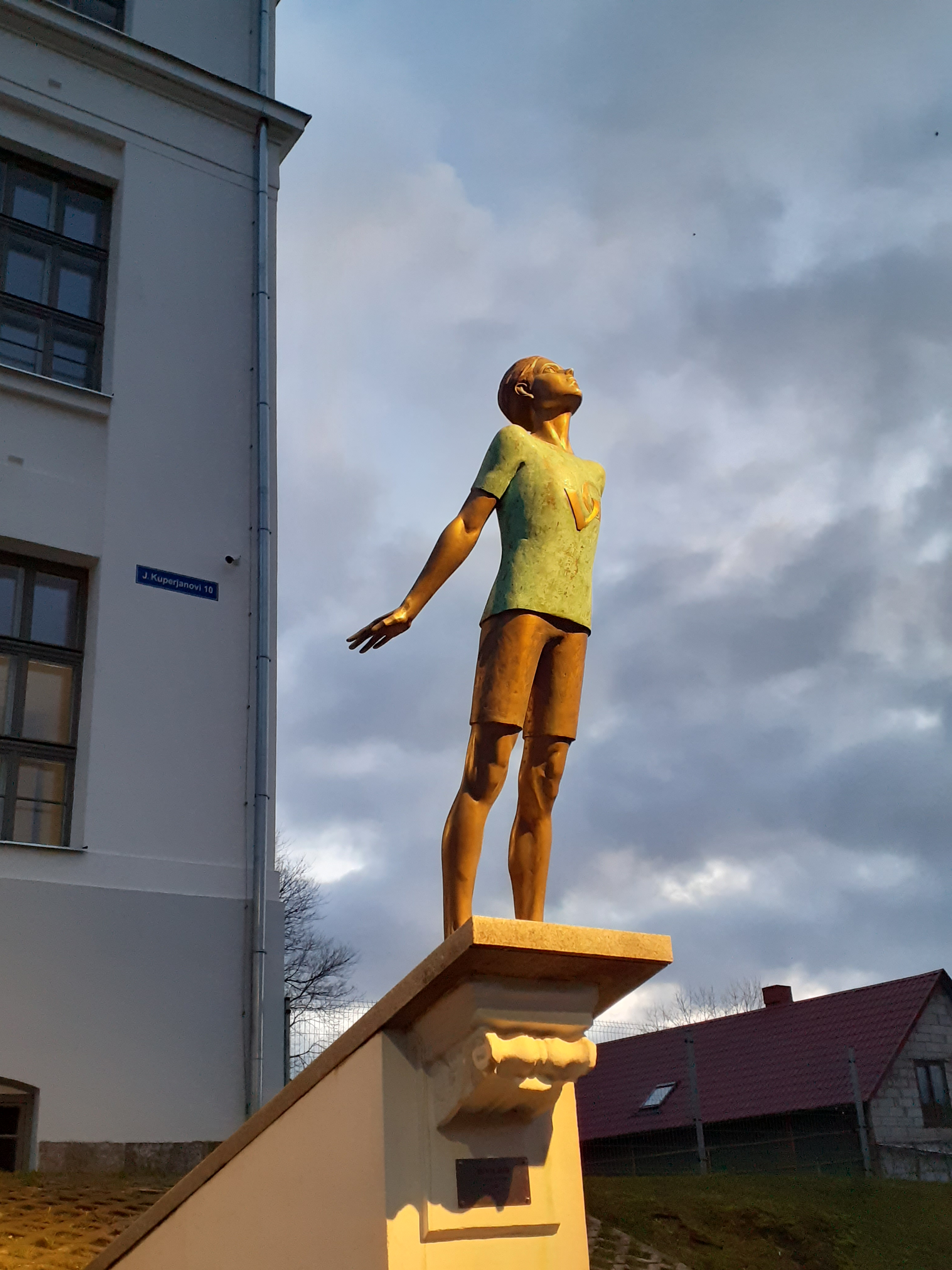 Monument in front of estonian school 'Valga gümnaasium', J. Kuperjanovi 10